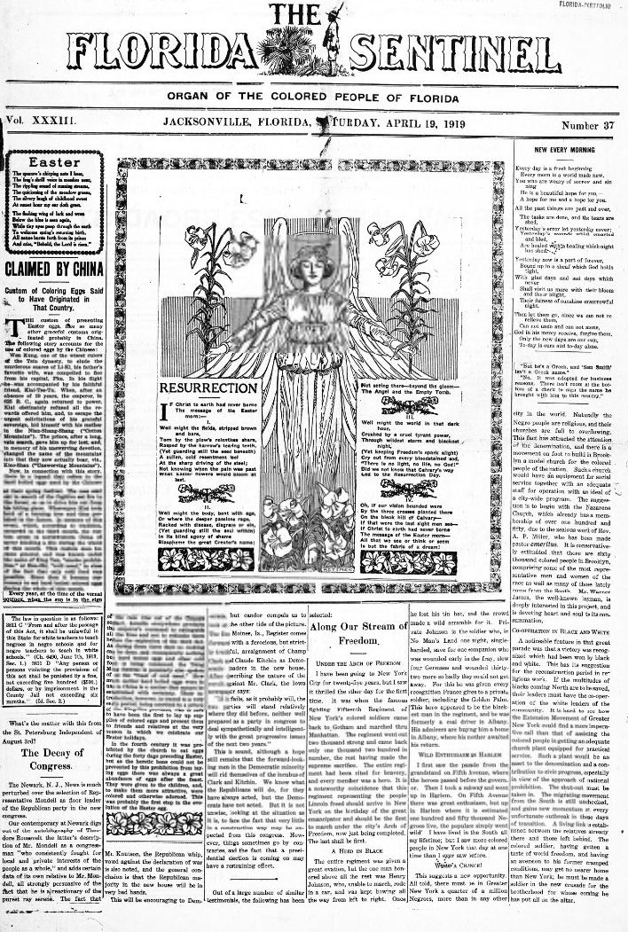 Front page of an issue of the Florida Sentinel, an African-American newspaper published in Jacksonville, dated April 19, 1919.